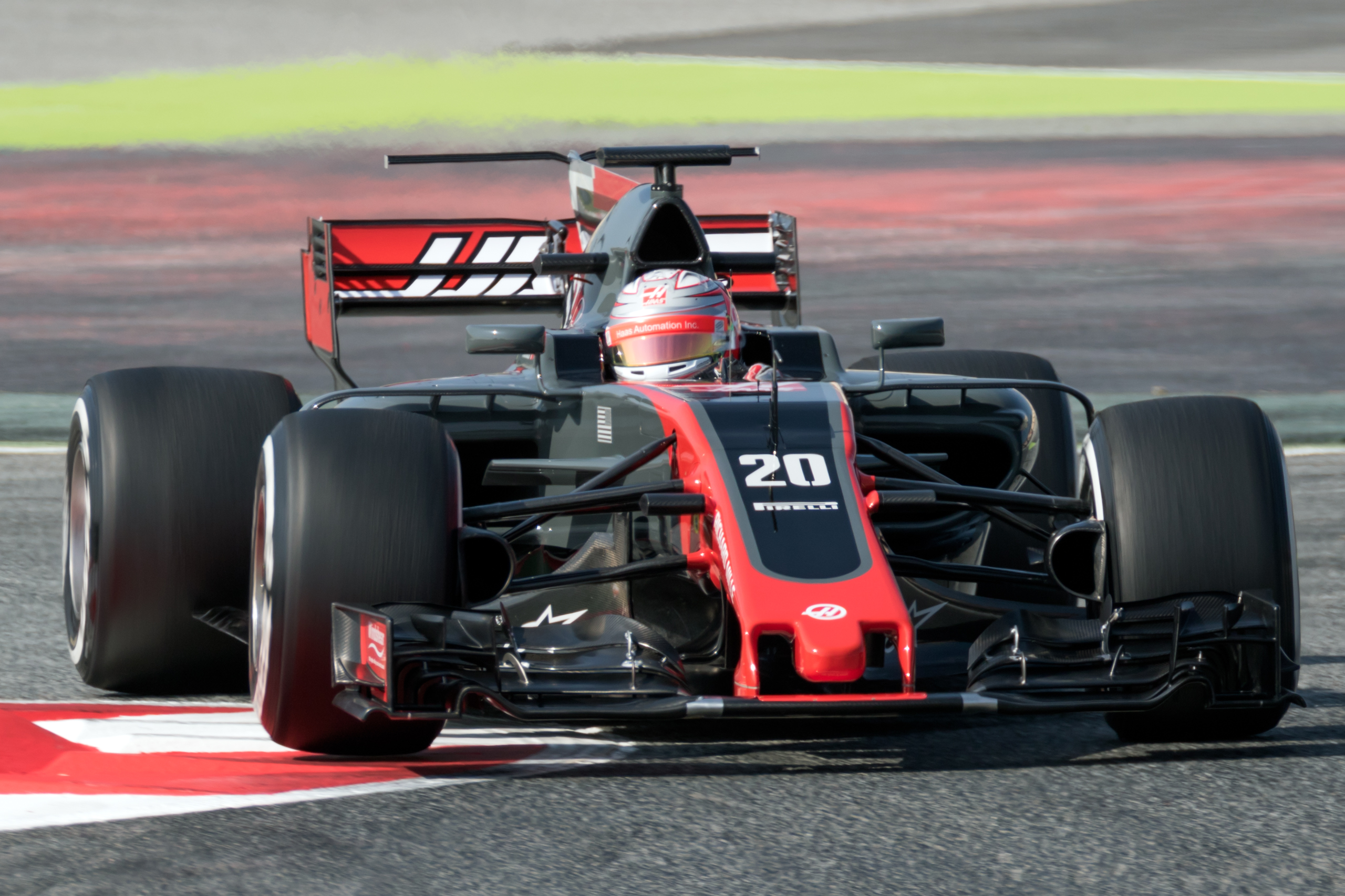 Formula One 2017 Catalonia test (27 February-2 March): Kevin Magnussen (Haas)